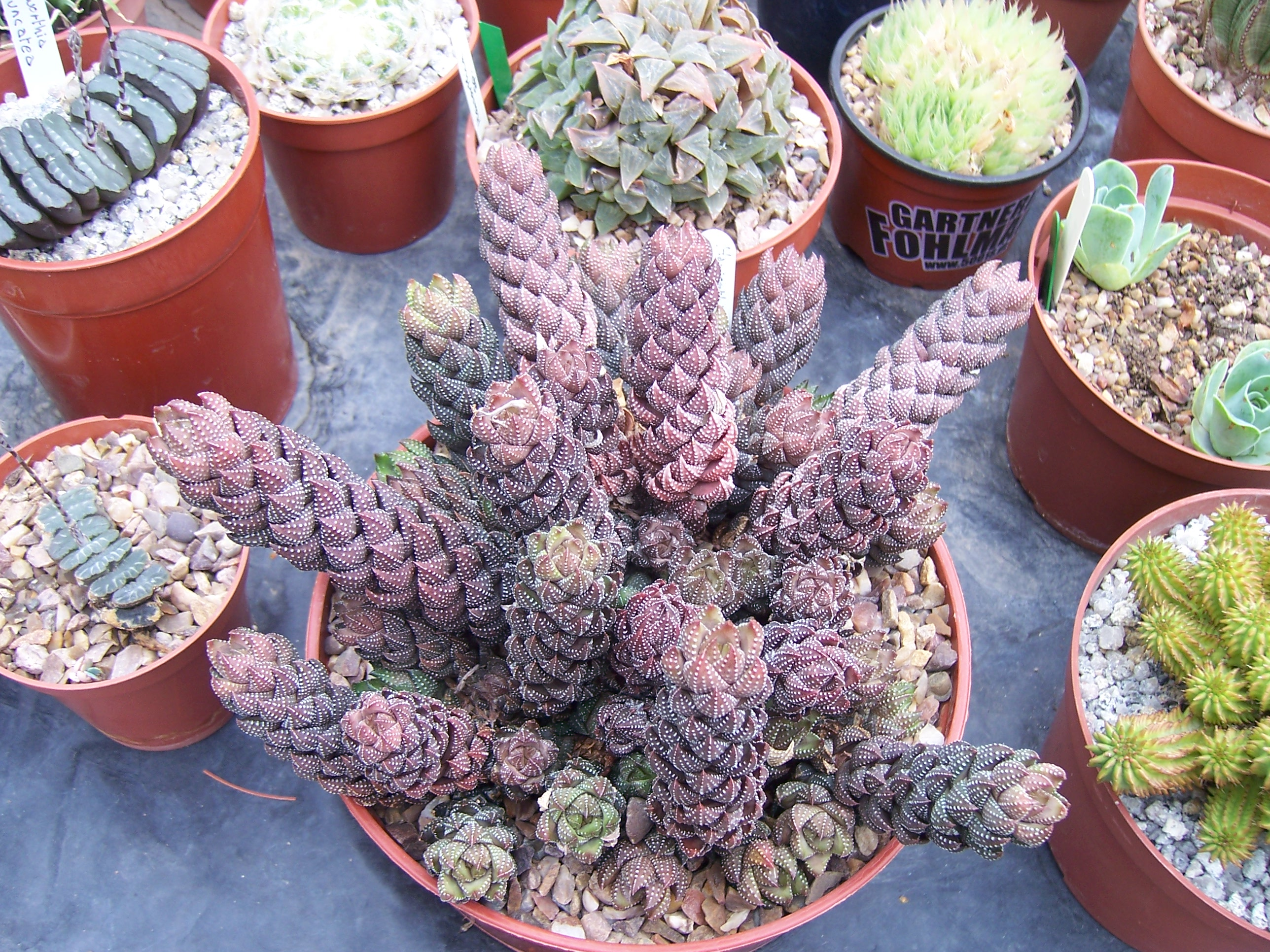 Winterbourne - Haworthia coarctata